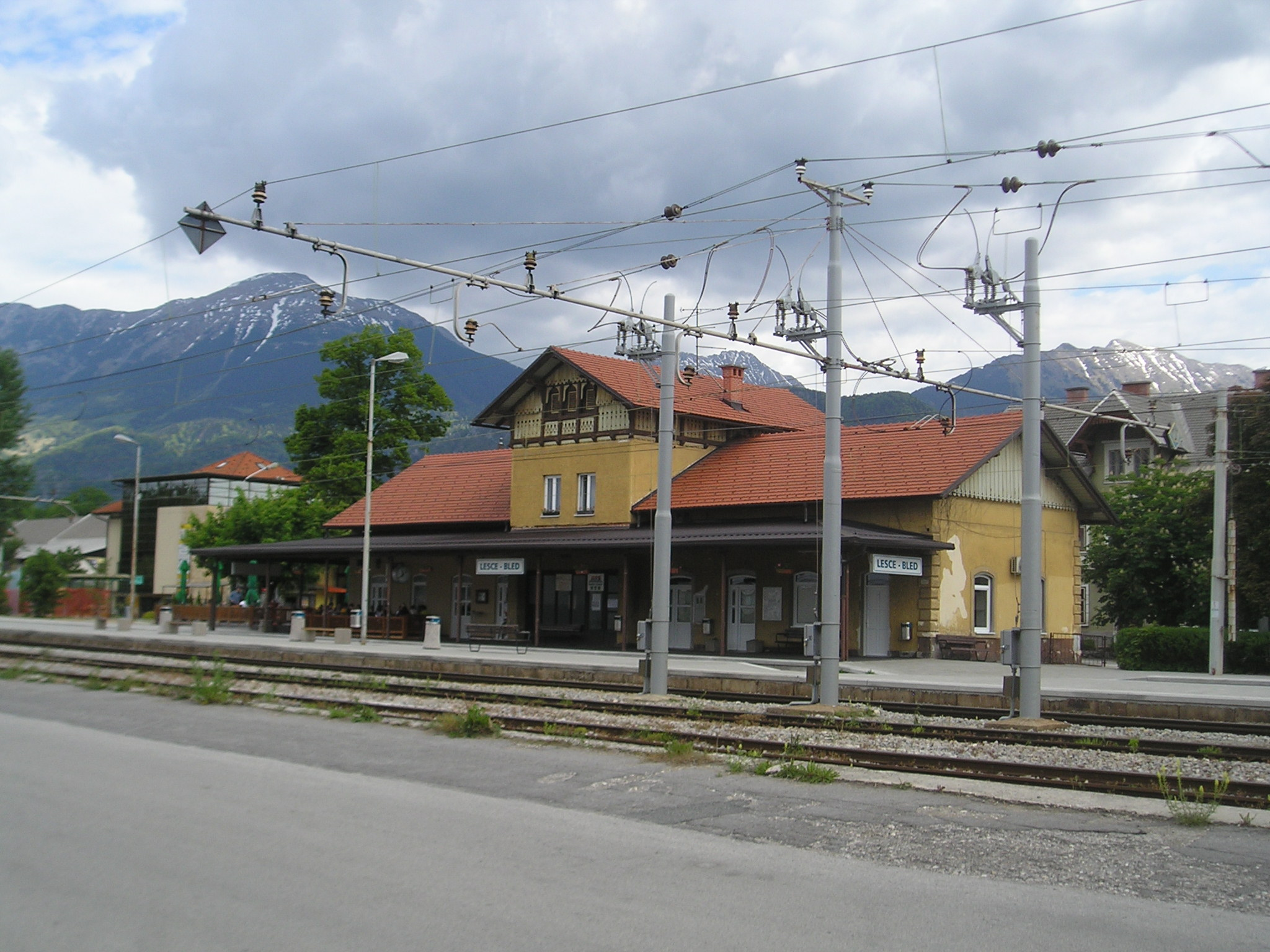 Train station Lesce - Bled, situated in Lesce, Slovenia